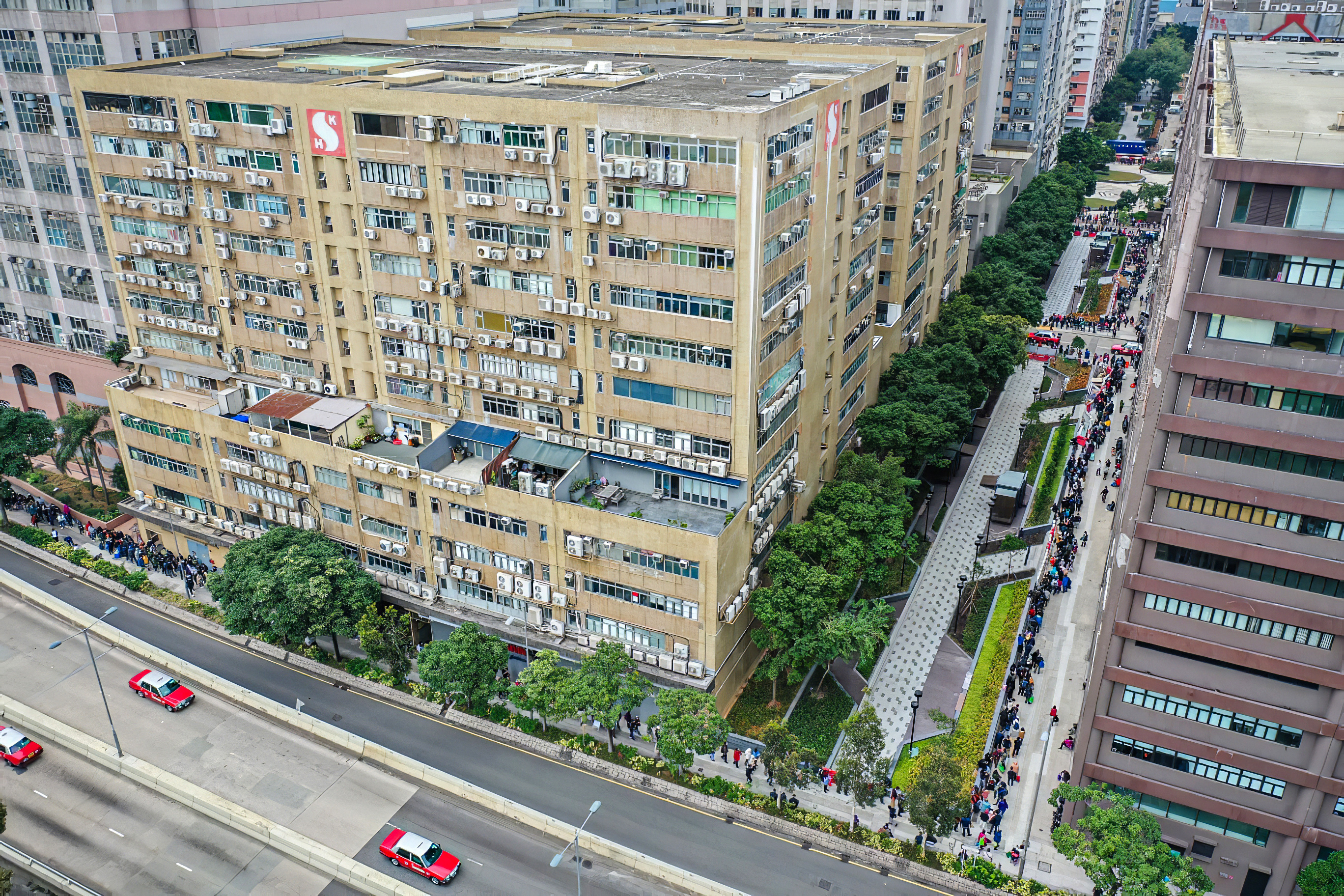 Queue to buy the mask in Kowloon Bay aerial view